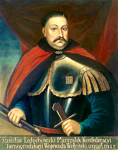 Stanisław Ledóchowski on anonymous portrait